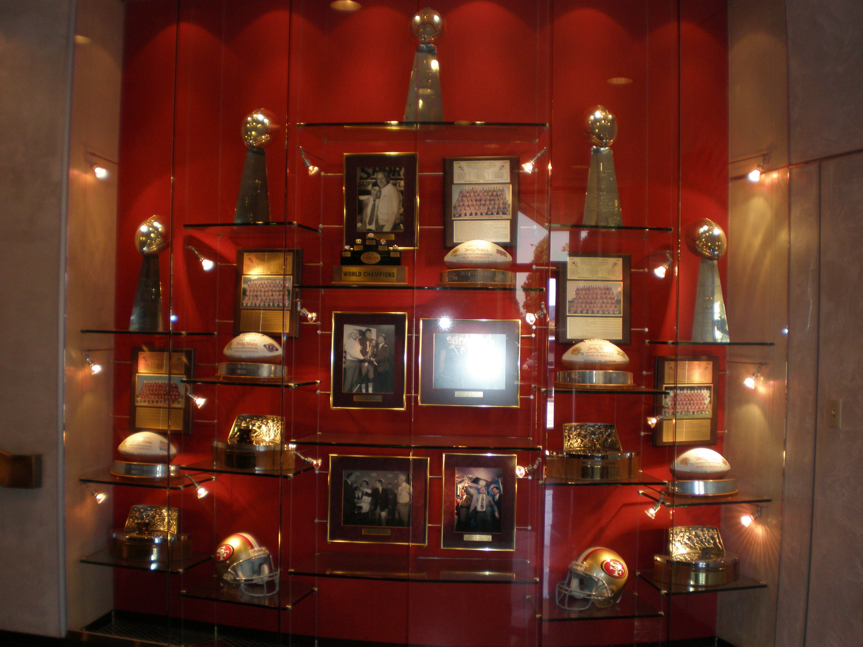 The trophy wall of the Marie P. DeBartolo Sports Centre, the headquarters of the San Francisco 49ers, in Santa Clara, California. The team's Super Bowl trophies, rings, game balls, and George Halas Trophies are displayed.